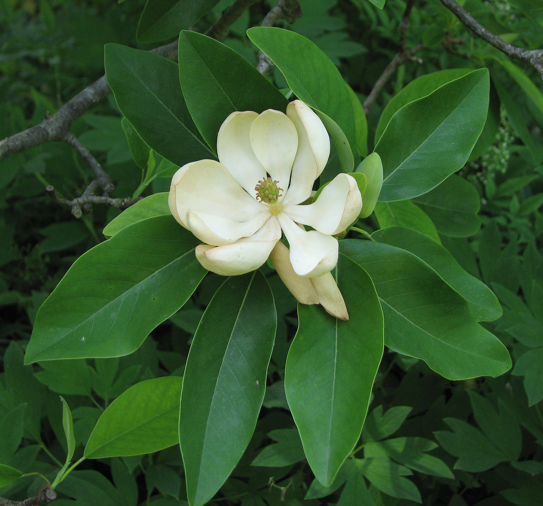 Picture of the flower on the Sweetbay Magnoliaen (Magnolia virginiana en . Photo taken in the near the Tennis Court Garden at the Chanticleer Garden where the species was identified.